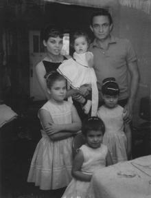 Rosanne, Vivian, Tara, Johnny, Kathy and Cindy Cash